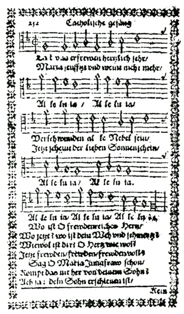 Lasst Uns Erfreuen, traditional German Easter hymn, oldest existing copy